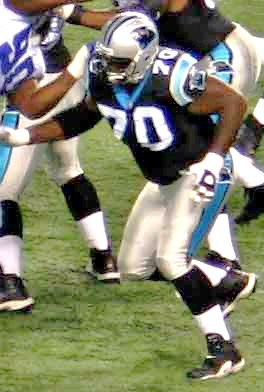 Jake Delhomme (#17) goes deep